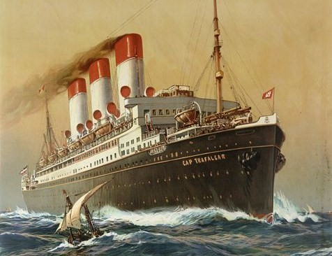 Poster of the Cap Trafagar. Note that the "1899" in this filename is potentially misleading as the ship was built in 1913, with maiden voyage in 1914.